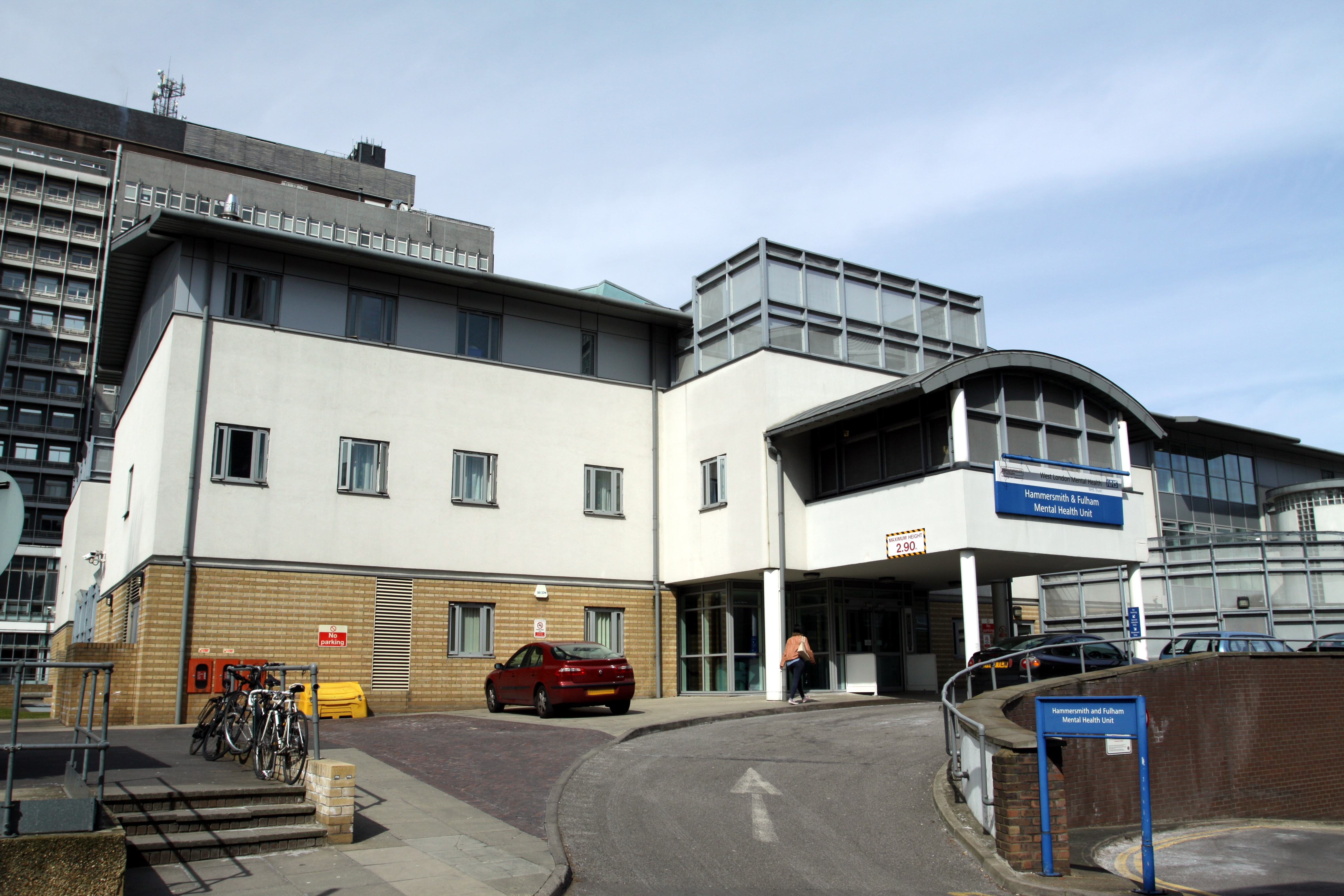 Charing Cross Hospital in the London Borough of Hammersmith and Fulham, London, Great Britain. The making of this file was supported by Wikimedia UK.